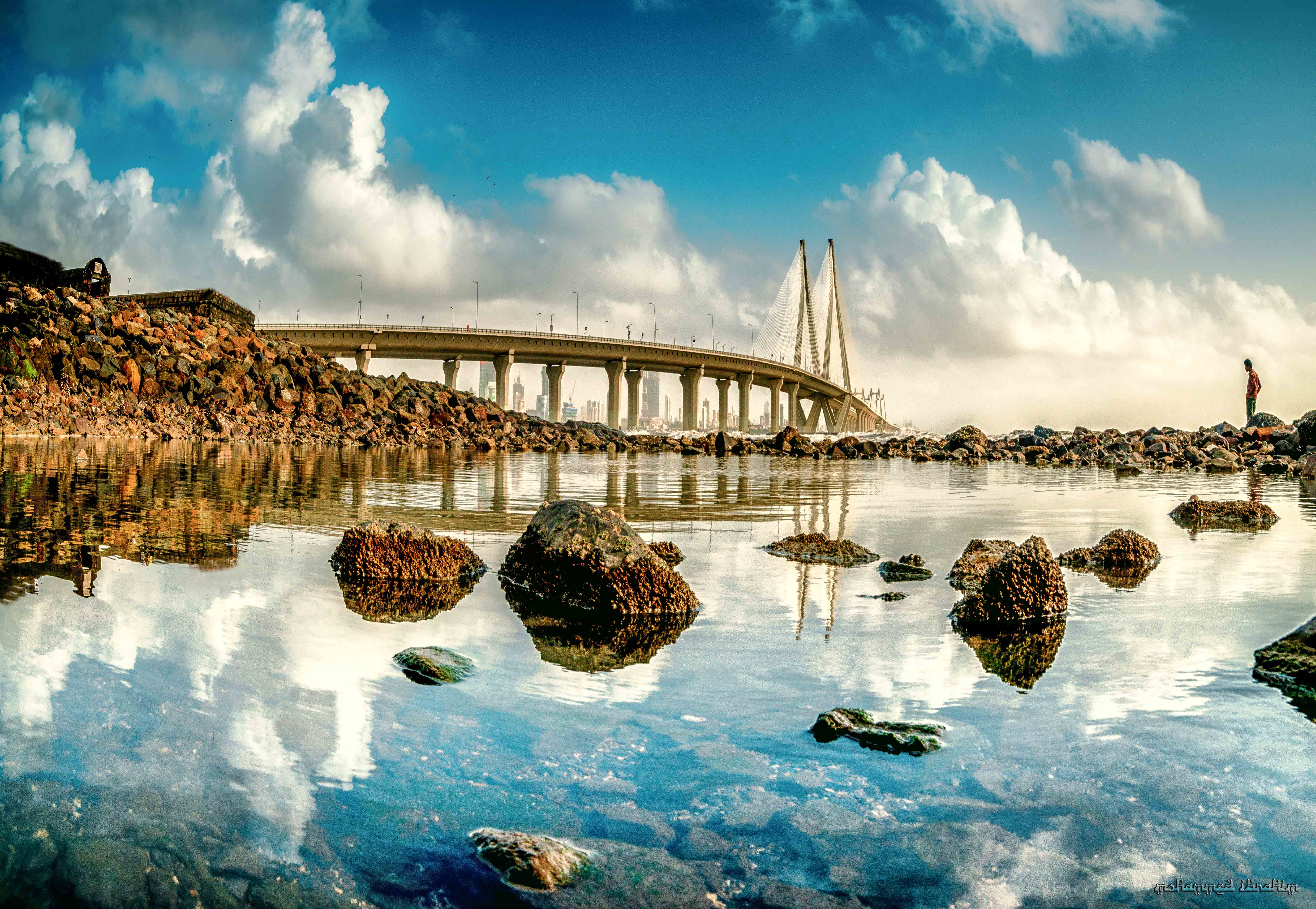 Beautiful Reflection of Clouds & Bandra Worli Sealink During Early Monsoon